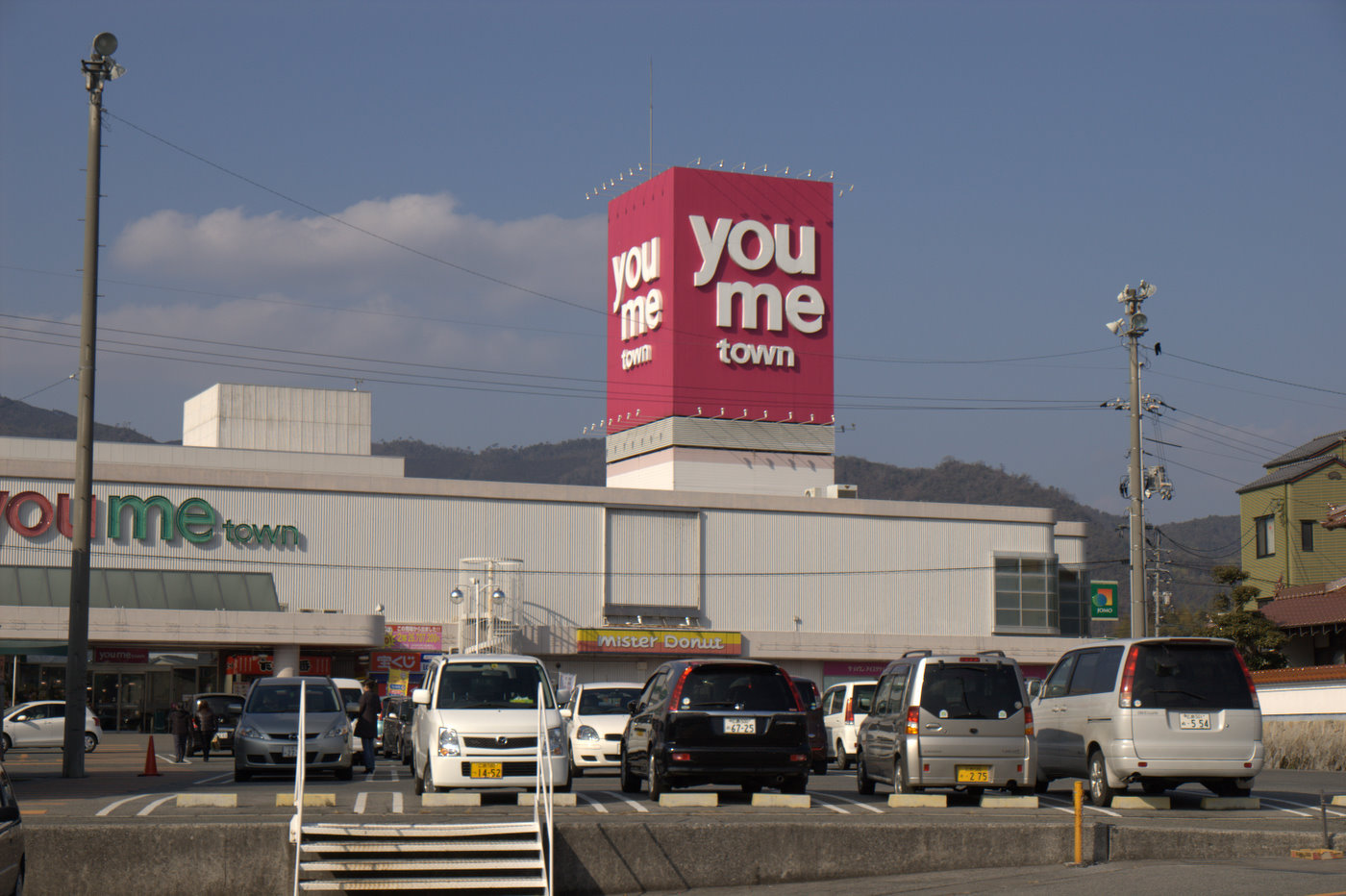 You me town Kurose in Higashihiroshima , Hiroshima pref., Japan.